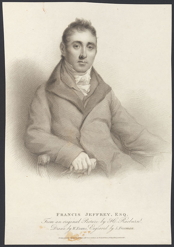 Francis Jeffrey, Lord Jeffrey (1773-1850)